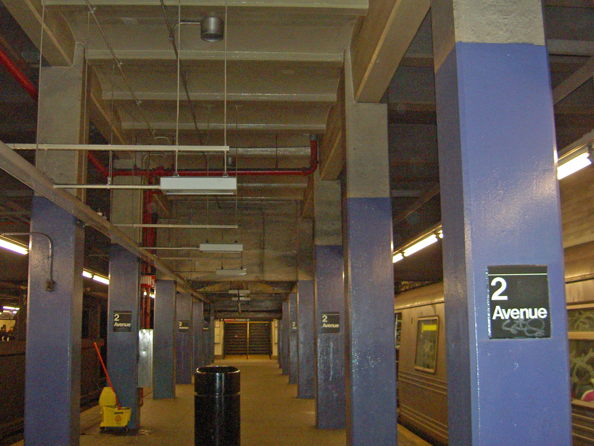 Raised ceiling in 2nd Avenue Subway station making way for 2nd Avenue Line, by David Shankbone